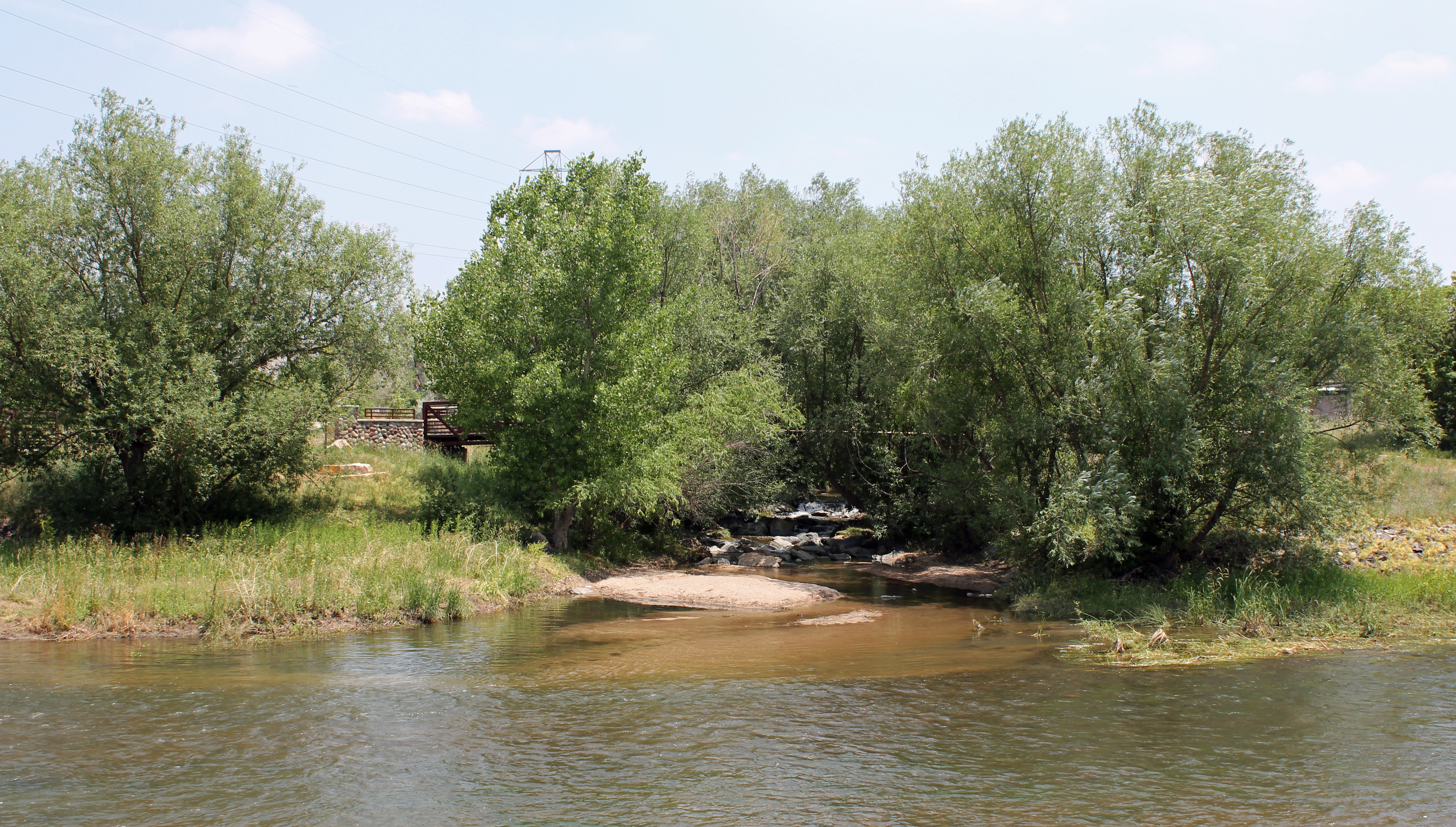 The confluence of Big Dry Creek and the South Plate River. The confluence is inside the city limits of Englewood, Colorado.